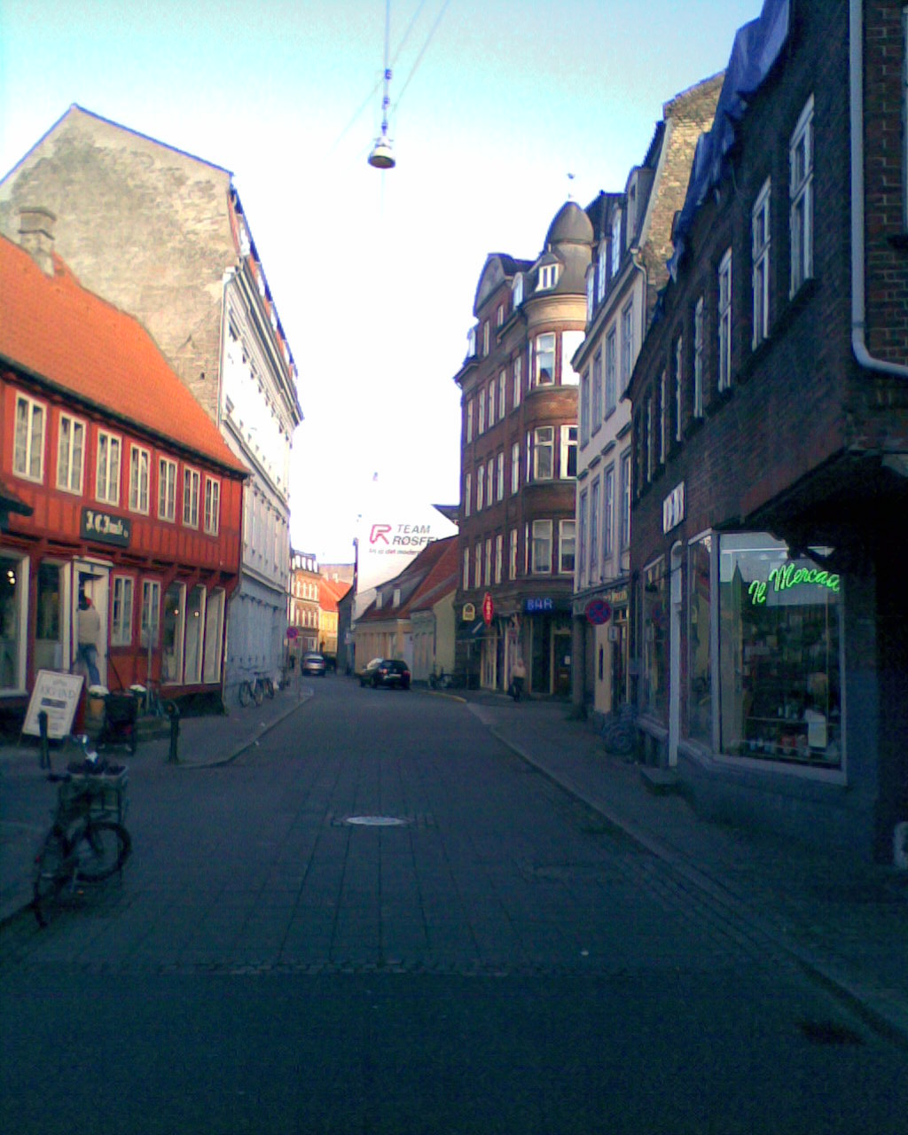 Mejlgade, Århus, Denmark